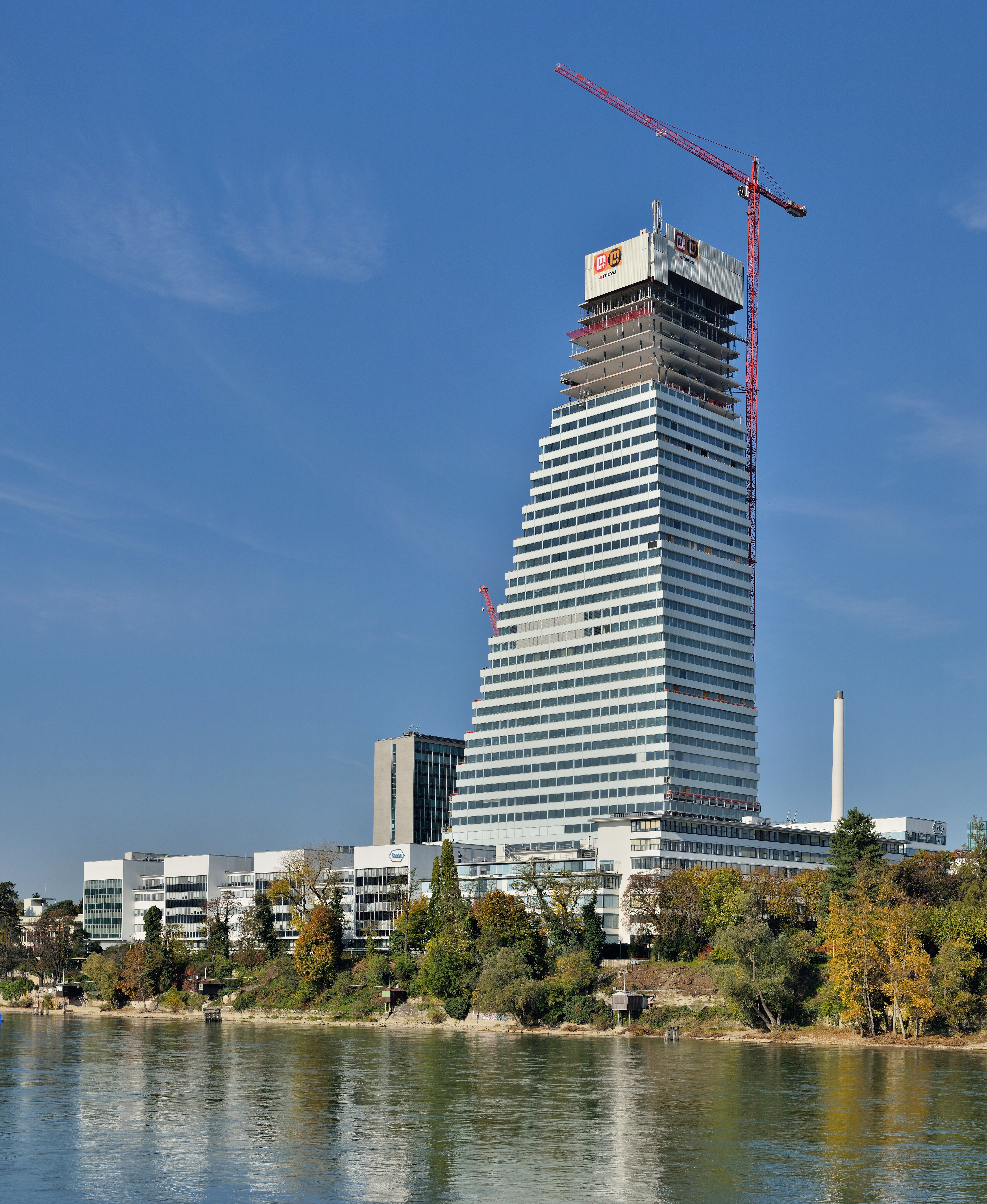 Roche Tower during construction on 1st november 2014